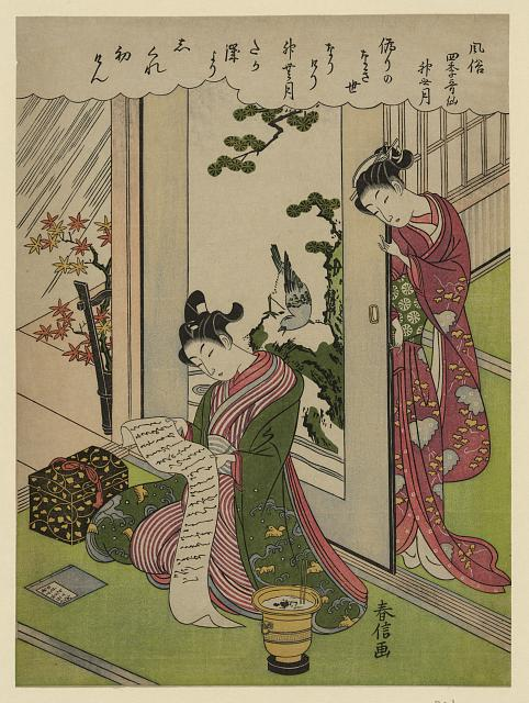 Kannazuki, Harunobu Suzuki, c. 1770 "Kannazuki" (tenth month of the traditional Japanese calendar), polychrome woodblock print. Original woodblock by Harunobu Suzuki c. 1770, later printing. One of a pair (with "Risshun") showing a young couple in autumn and spring, respectively. A youth (wakashū) sits near an open porch and reads, a young woman stands behind a sliding screen behind him.